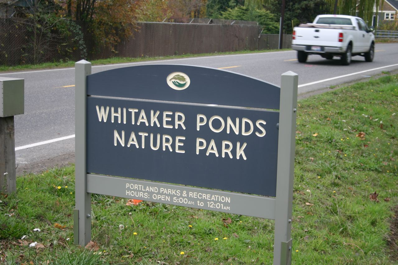 The sign for Whitaker Ponds Nature Park in Portland, Oregon